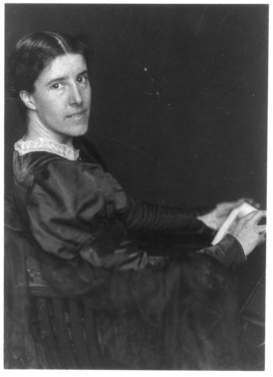 American feminist poet and writer Charlotte Perkins Gilman (1860–1935)